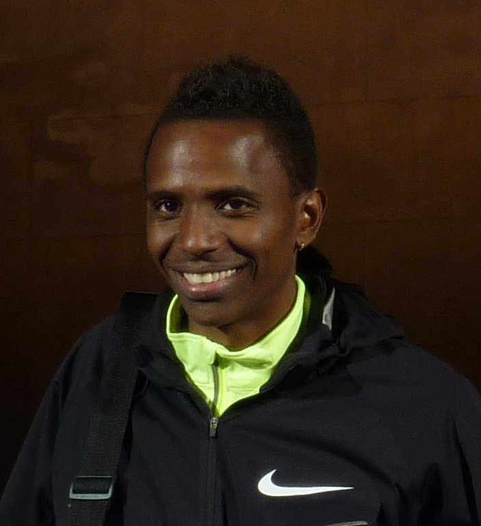 Mauro Vinicius da Silva 2012 in München beim Jump & Fly